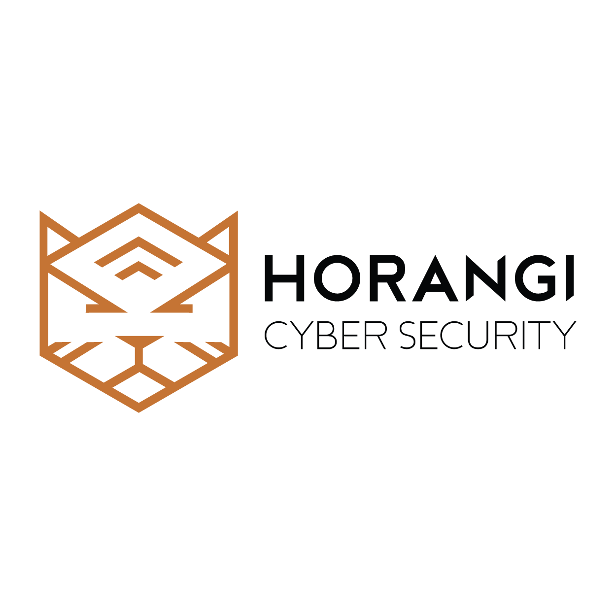 Horangi Cyber Security Logo